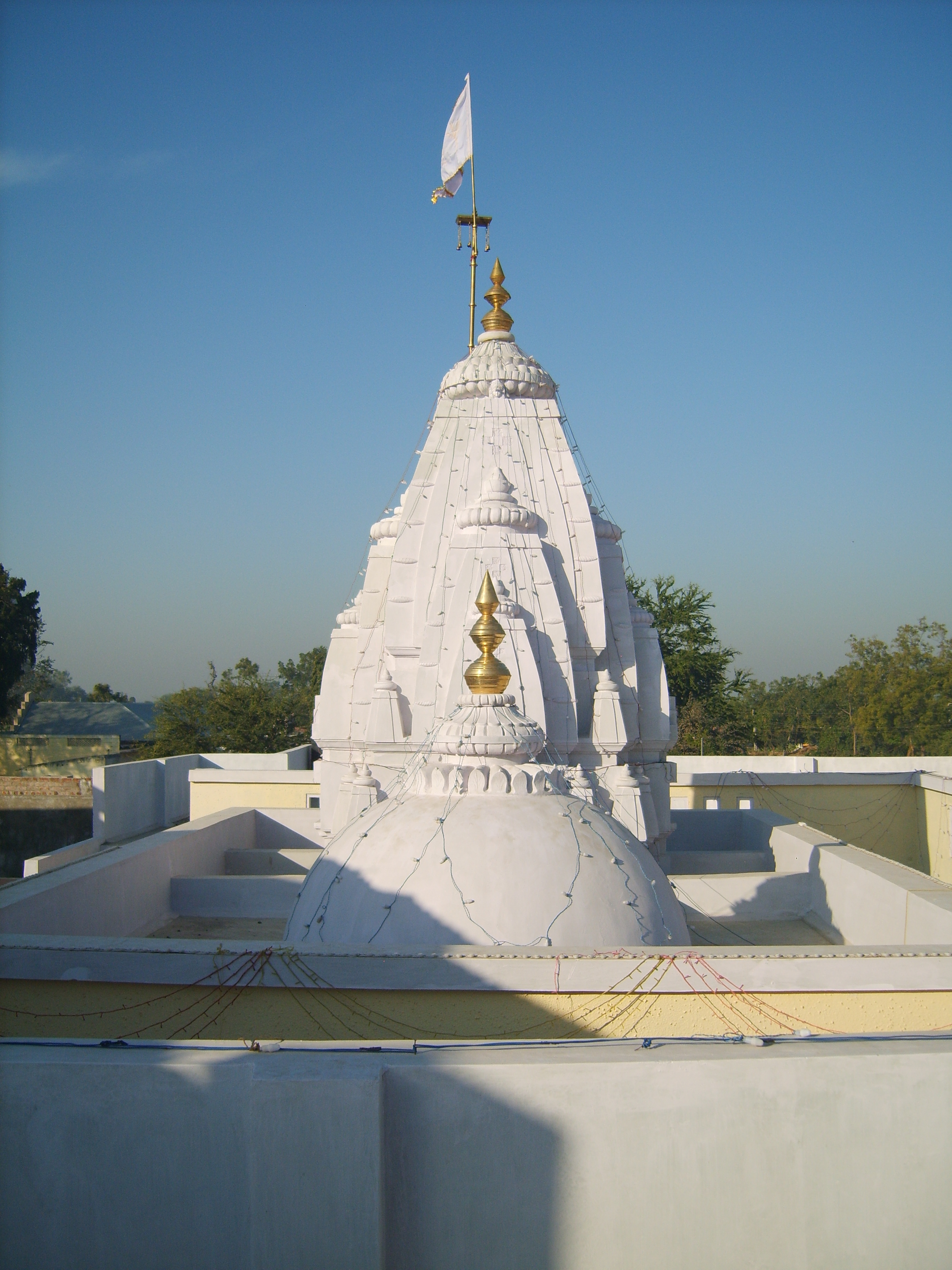 Nilkant Mahadev,I snav